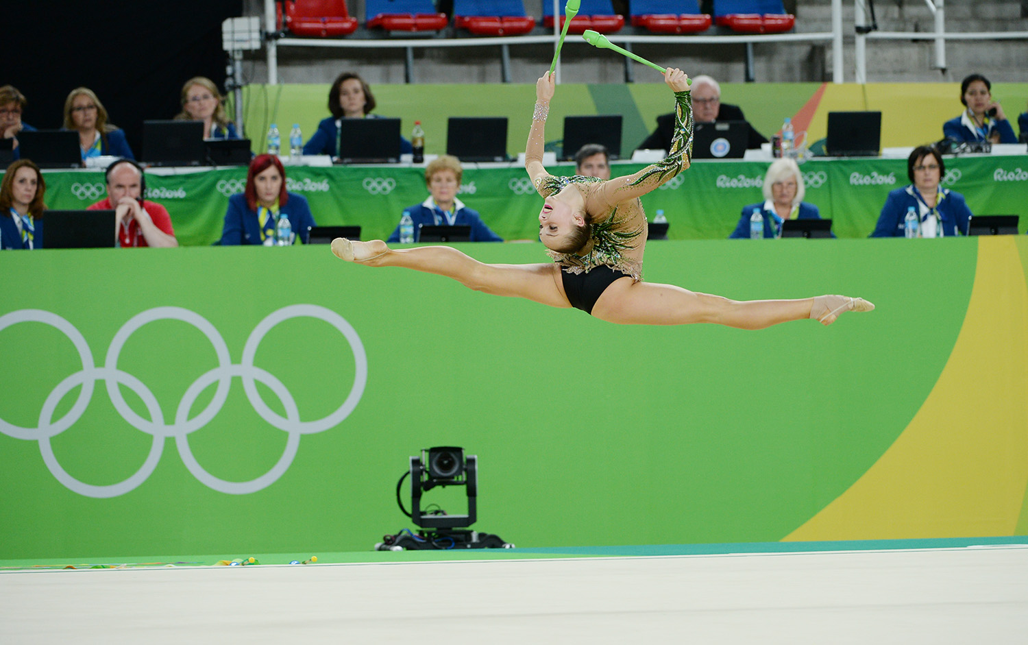 Rhythmic gymnastics at the 2016 Summer Olympics, Marina Durunda